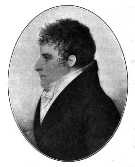 Kristofer Karsten, Swedish actor